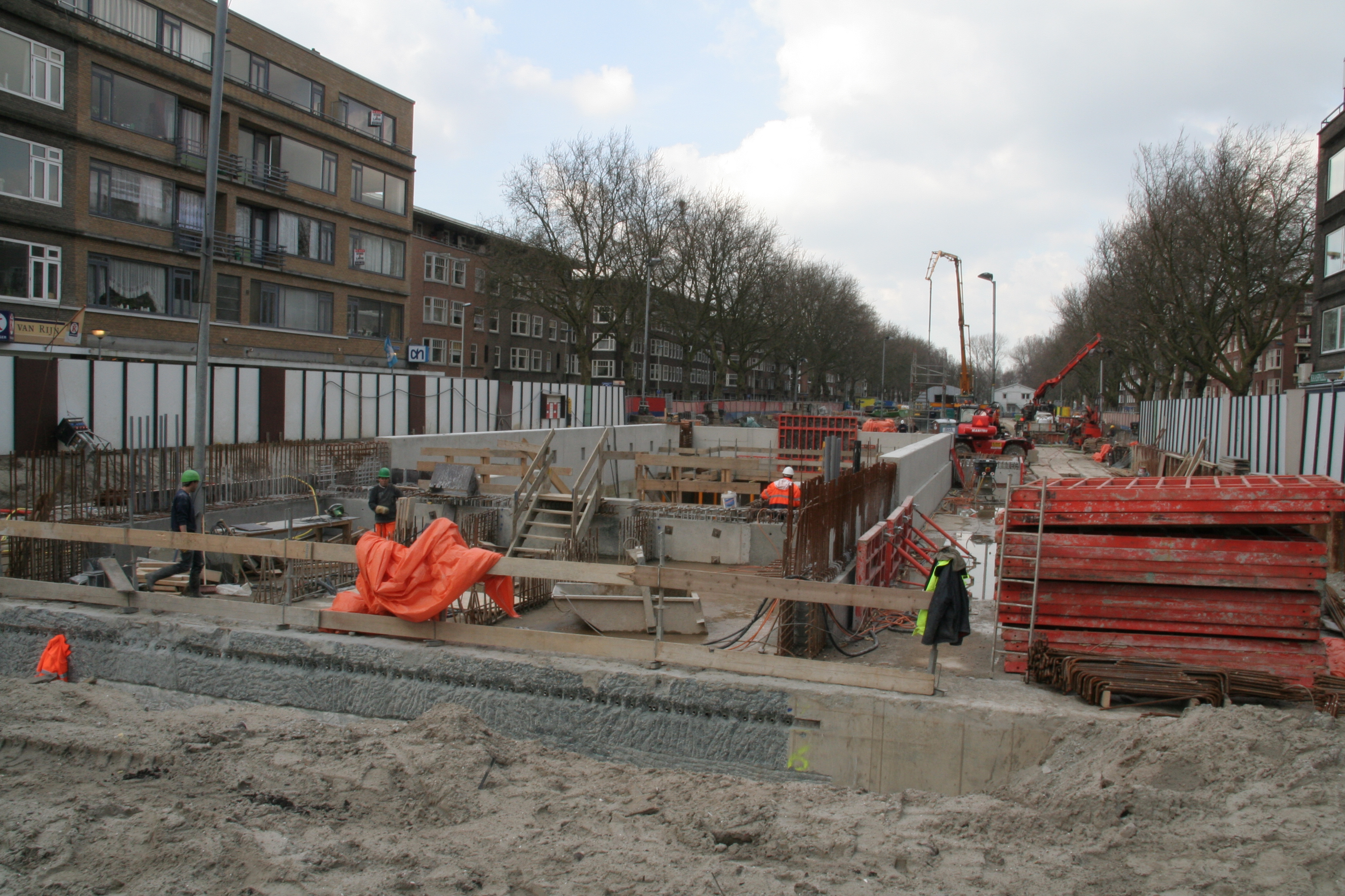 Station Blijdorp